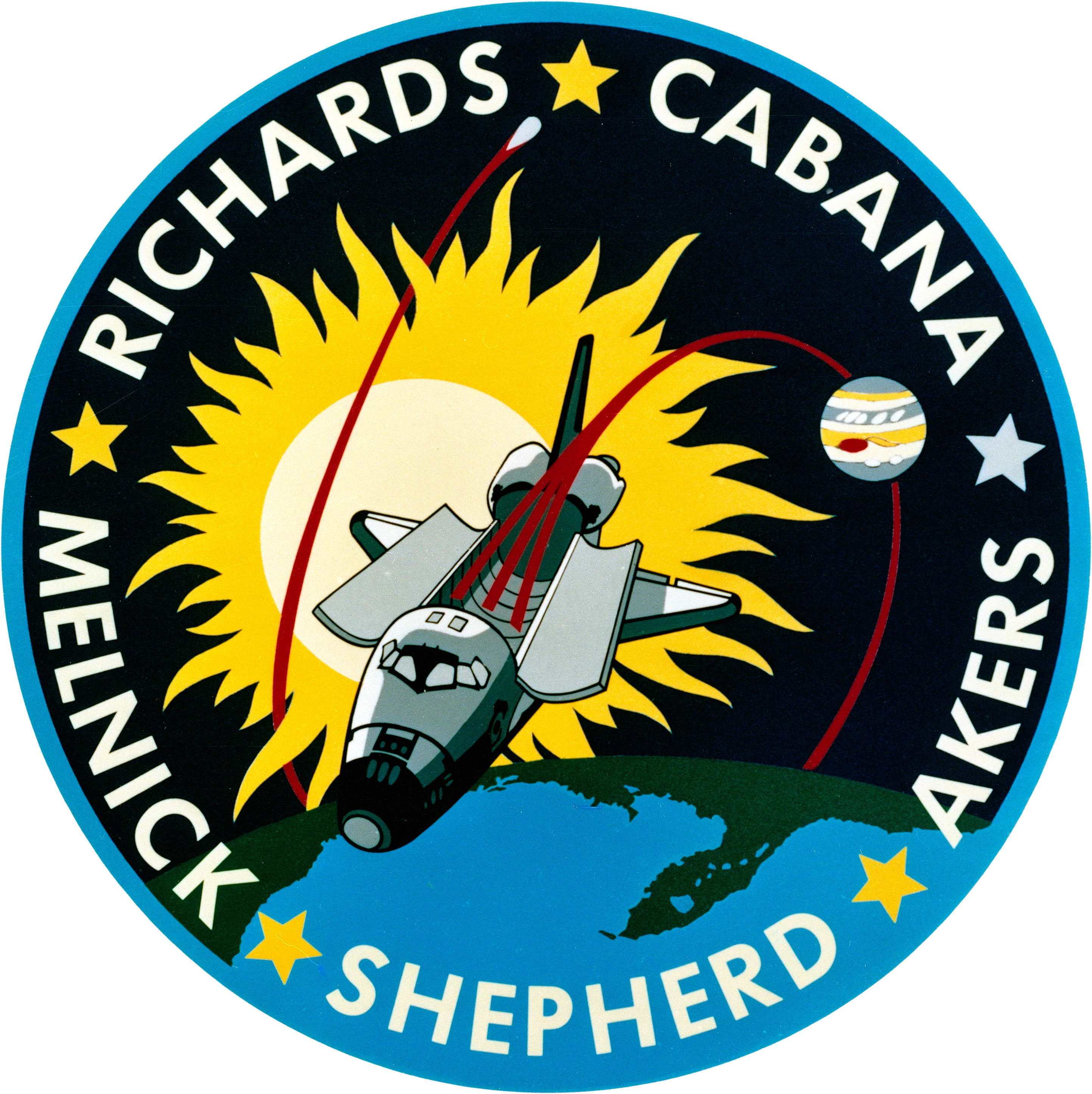 STS-41 Mission Insignia The STS-41 crew patch, designed by the five astronaut crewmembers, depicts the Space Shuttle orbiting Earth after deployment of its primary payload -- the Ulysses satellite. The orbiter is shown passing over the southeastern United States, representative of its 28-degree inclination orbit. Ulysses, the Solar Exploration Satellite, as the fastest man-made object in the universe, traveling at 30 miles per second (over 100,000 mph) is represented by the streaking silver teardrop passing over the sun. Ulysses' path is depicted by the bright red spiral originating from the Shuttle cargo bay. The three-legged trajectory, extending out the payload bay, is symbolic of the astronaut logo and is in honor of those who have given their lives in the conquest of space. The five stars, four gold and one silver, represent STS-41 and each of its crewmembers.